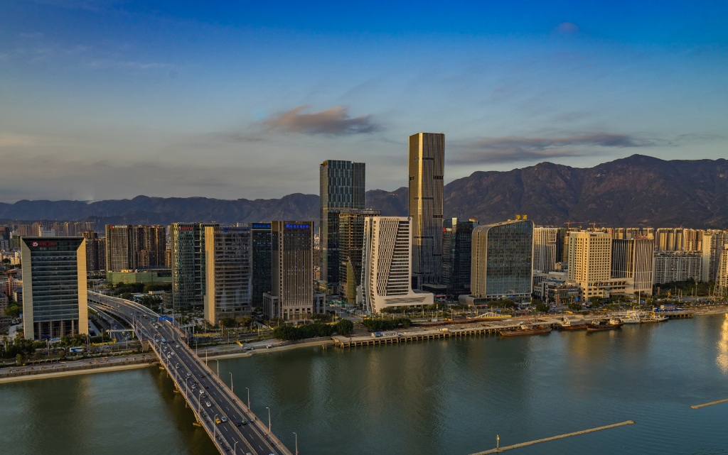 Fuzhou skyline